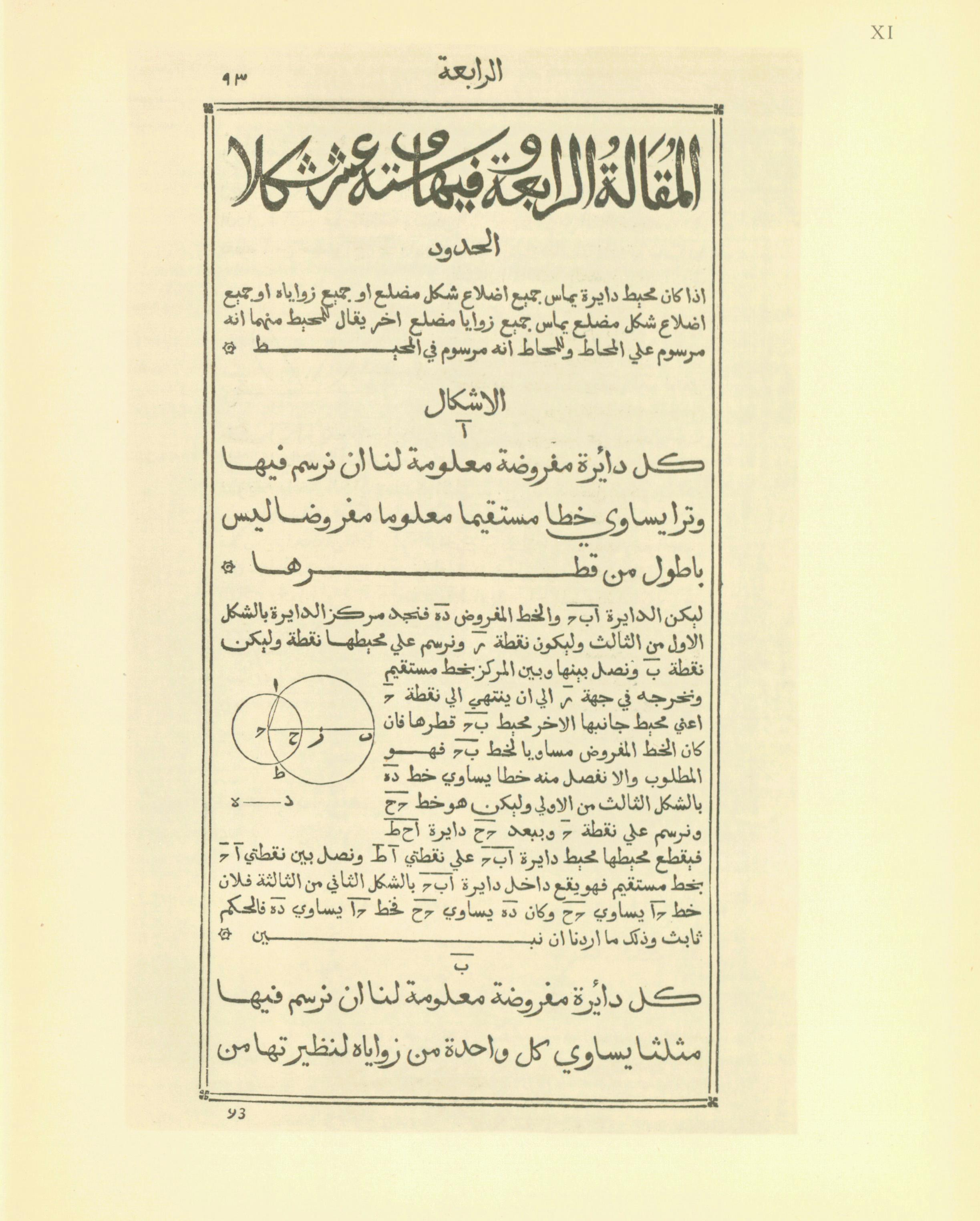 Plate XI. Typographia Medicea, Rome, 1594. Fol. 93 recto. Reduced from 258 x 128 mm. B.M. copy.